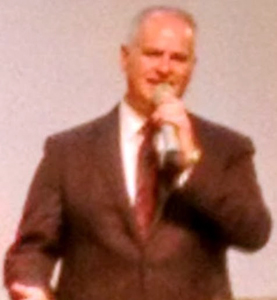 Tenor Chris Allman of the gospel music trio Greater Vision